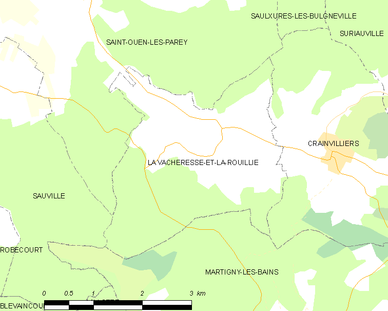 Map of French municipality La Vacheresse-et-la-Rouillie